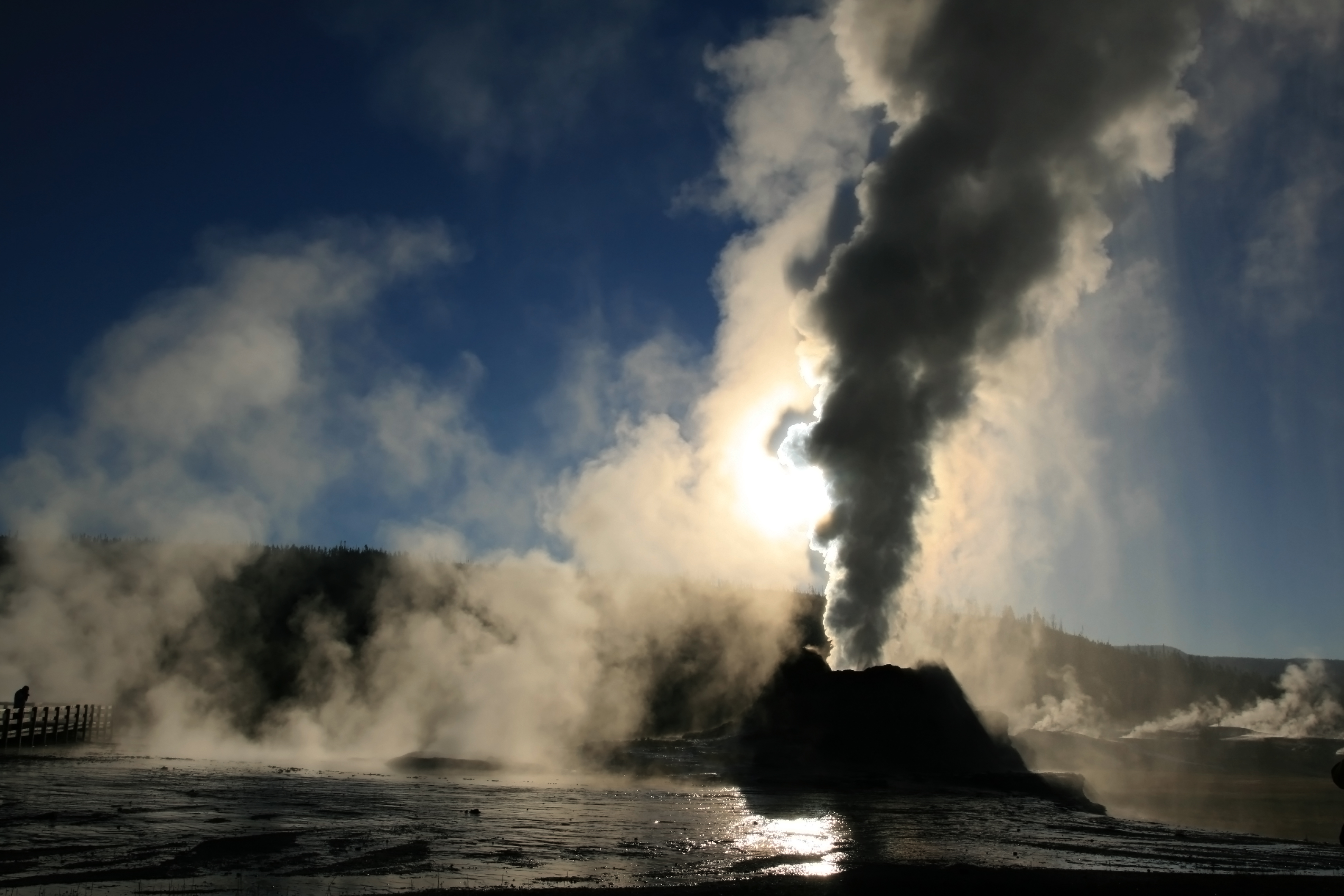 Steam phase eruption of Castle Geyser in Yellowstone National Park. The steam from the geyser casting a shadow ot itself creating crepuscular rays.